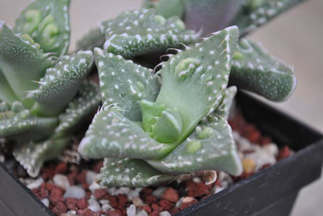 the succulent plant from family Mesembryanthemaceae